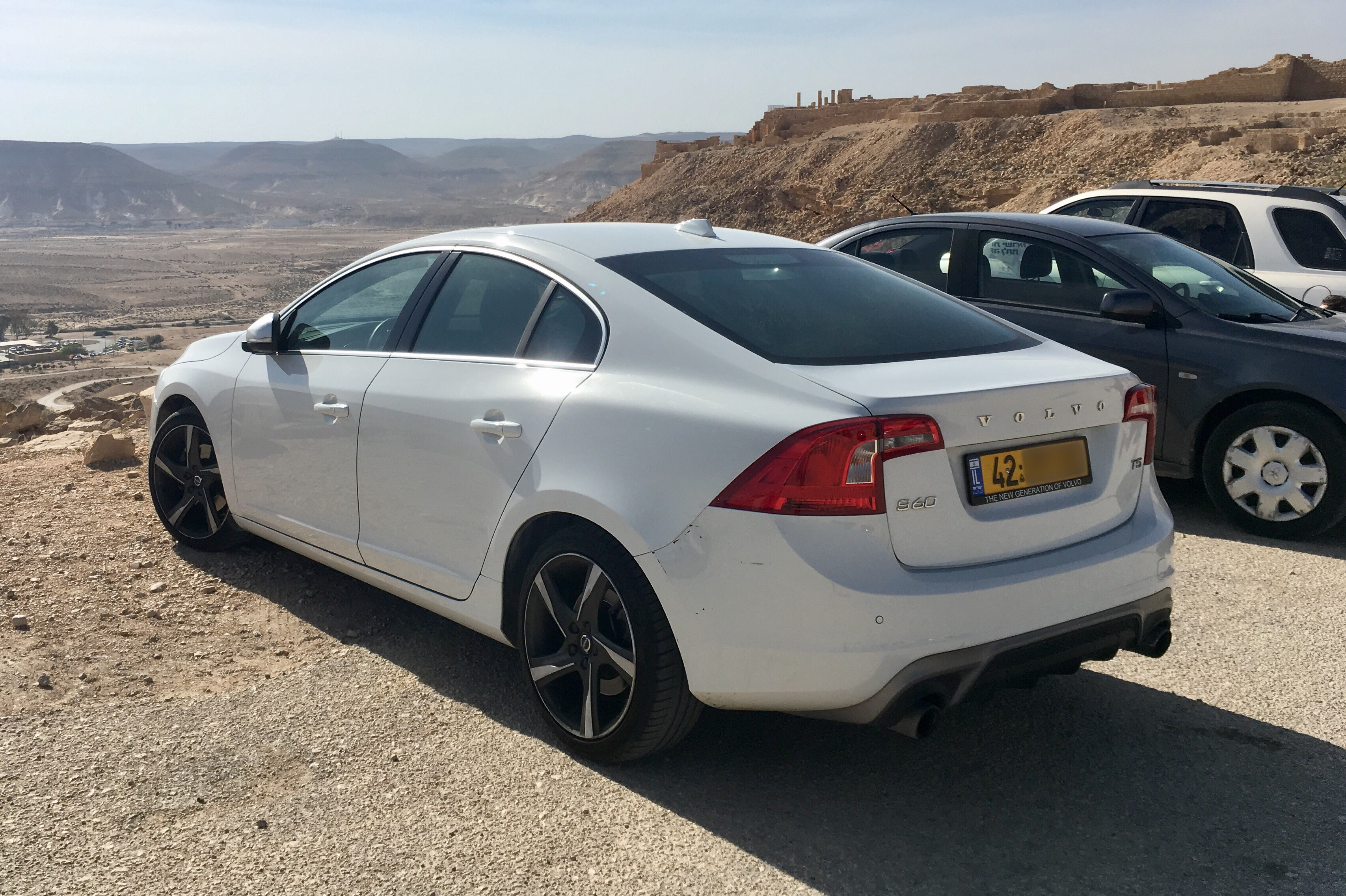 S60 R-Design